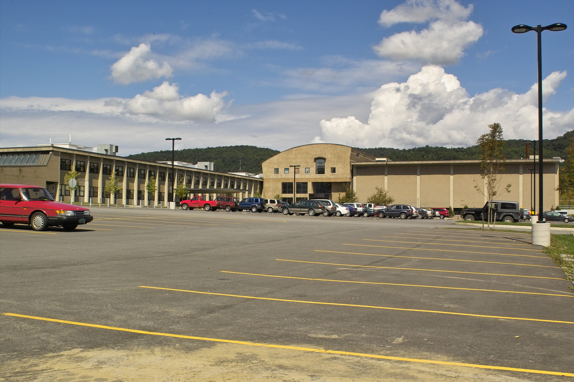 Front door of Champlain Valley Union School in Hinesburg, Vermont, USA.